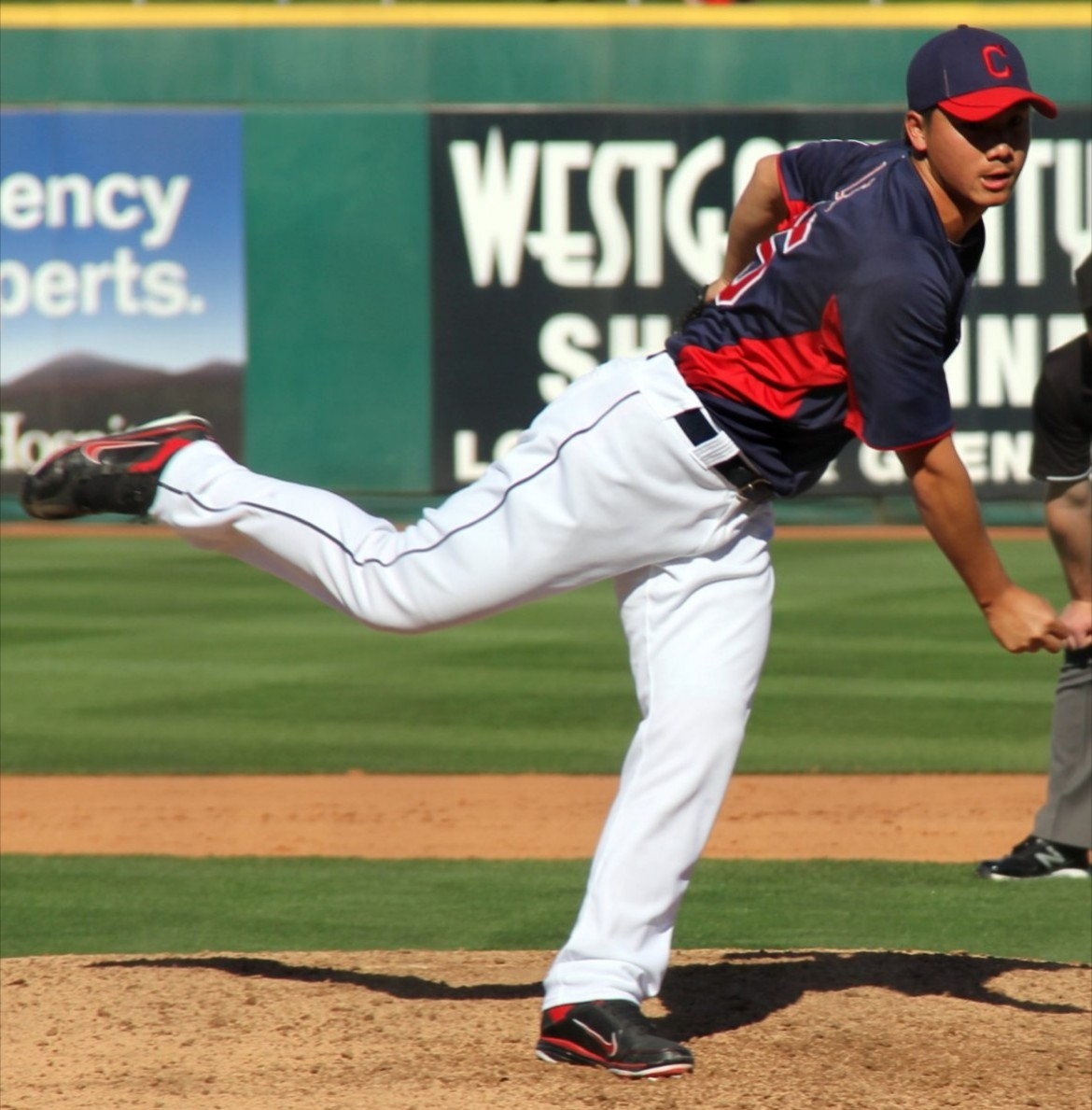 CC Lee in 2012 Cleveland Indians Spring Training.